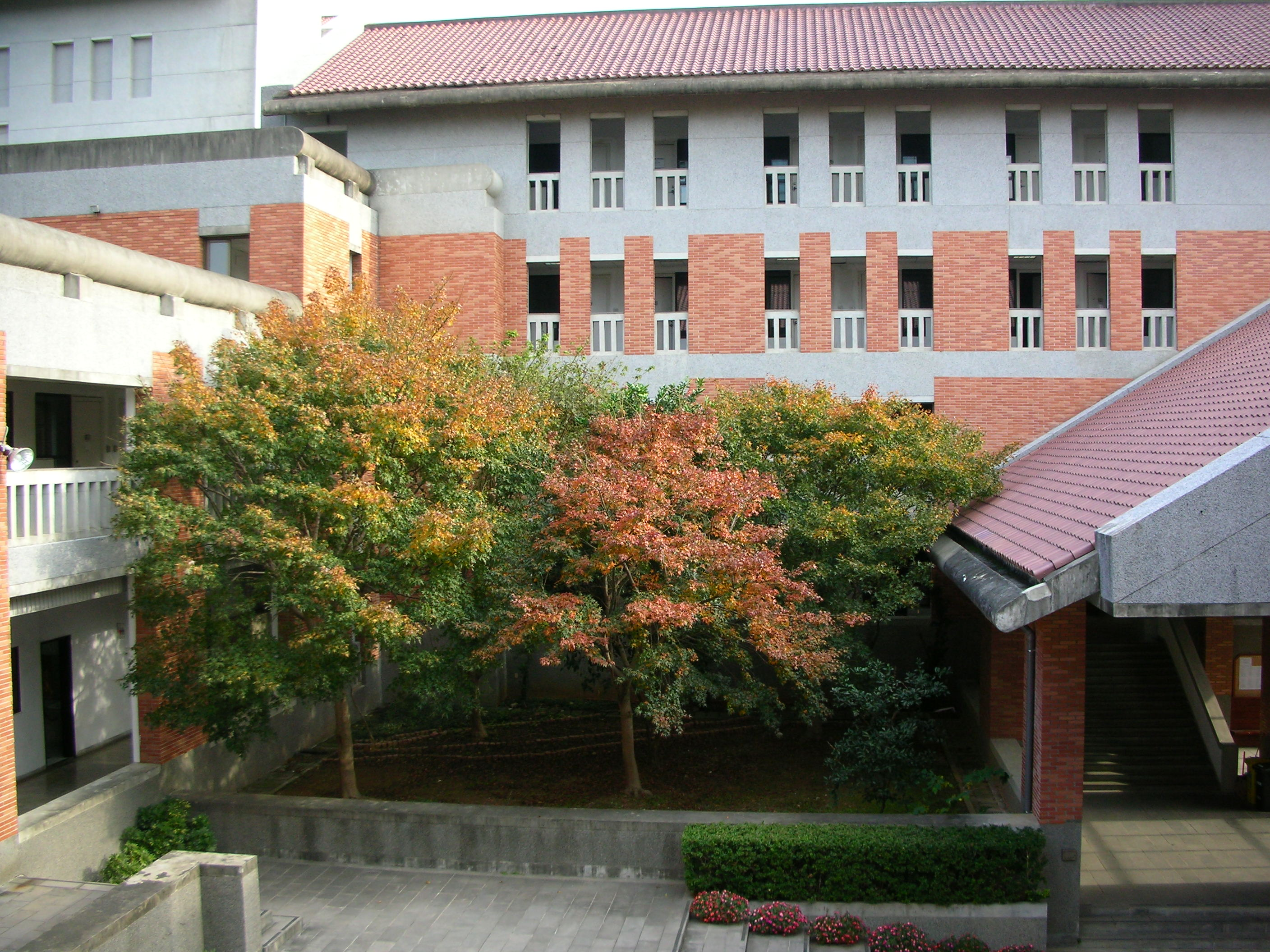 Taipei National University of the Arts at Kuandu, Beitou, Taipei City: College of Music, Department of Music, building 1.